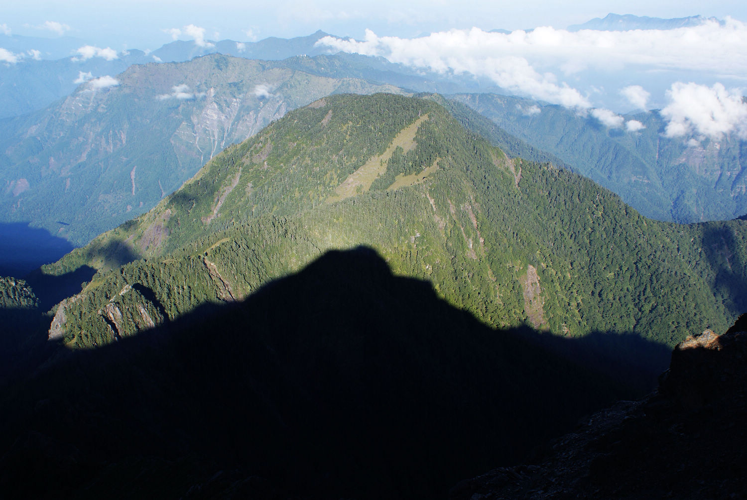 玉山西峰 Jade Mountain Western Peak